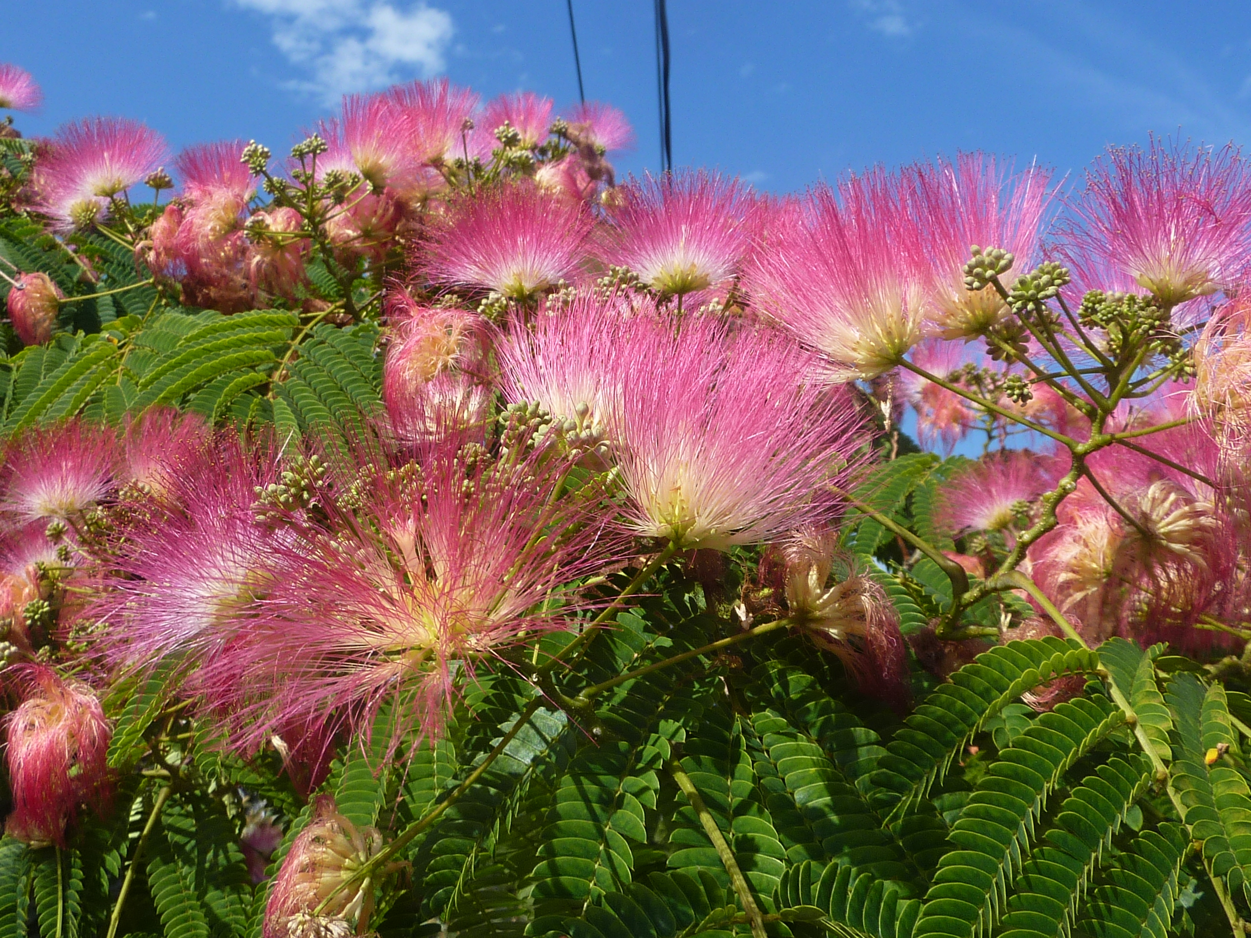 Albizia julibrissin, photographed in Soulac sur Mer, Gironde, France